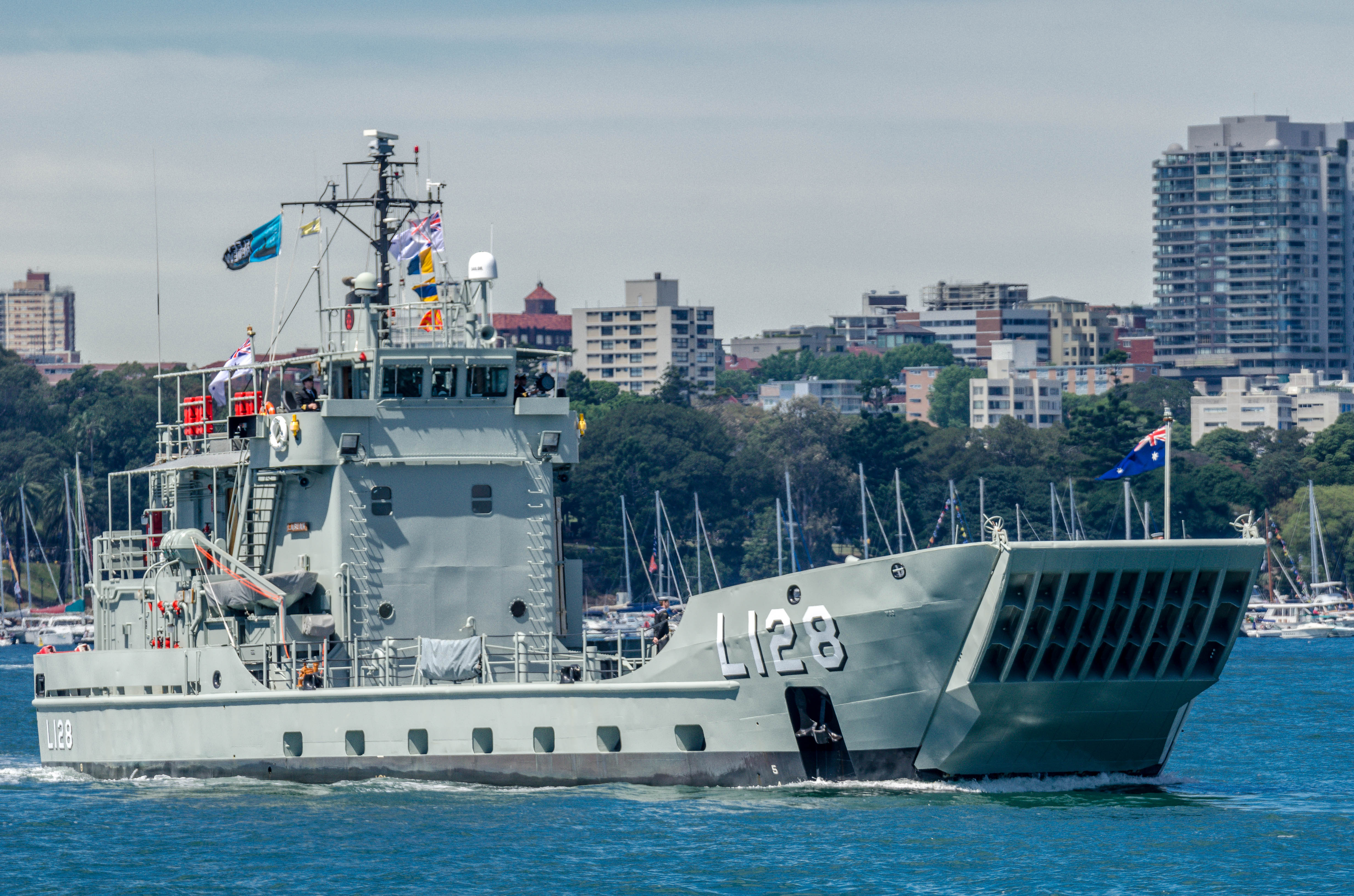 HMAS Labuan (L 128)